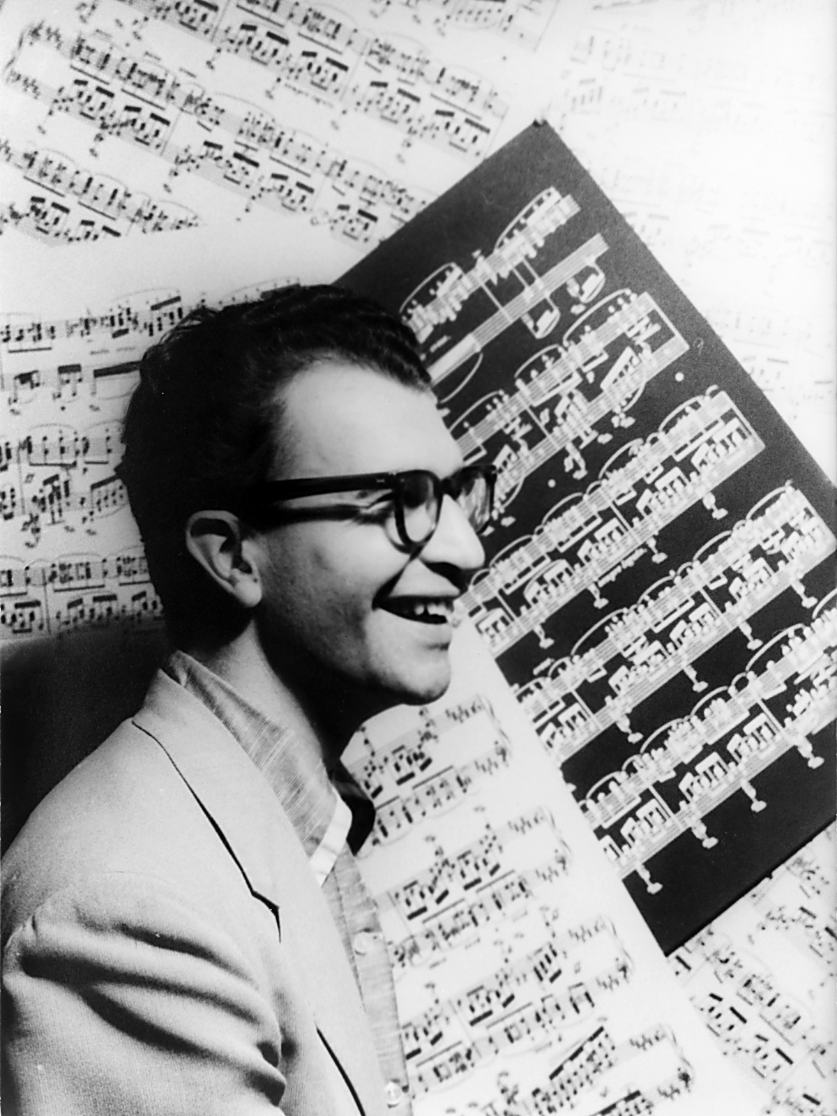 Portrait of Dave Brubeck, with sheet music as backdrop.